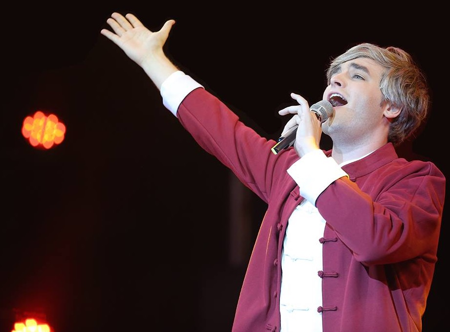 Slater Rhea (帅德) singing on Beijing TV.